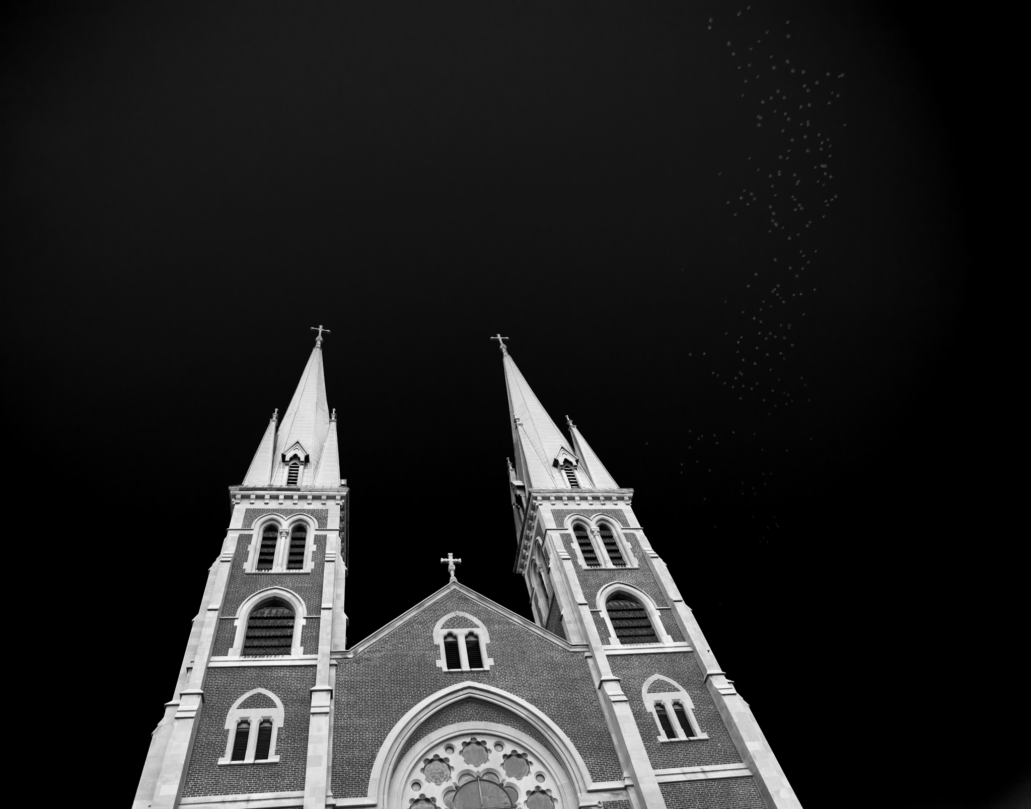 1867, Indianapolis 126 West Georgia Street Indianapolis, IN 46225